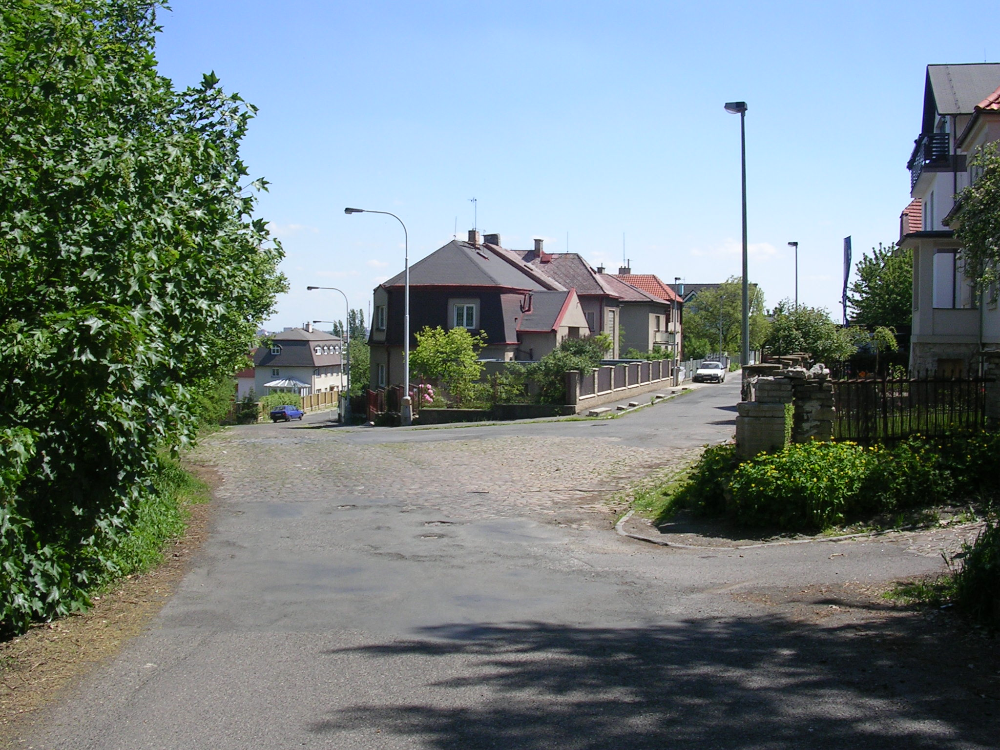 Bohdalec, Vršovice, Prague, the Czech Republic.